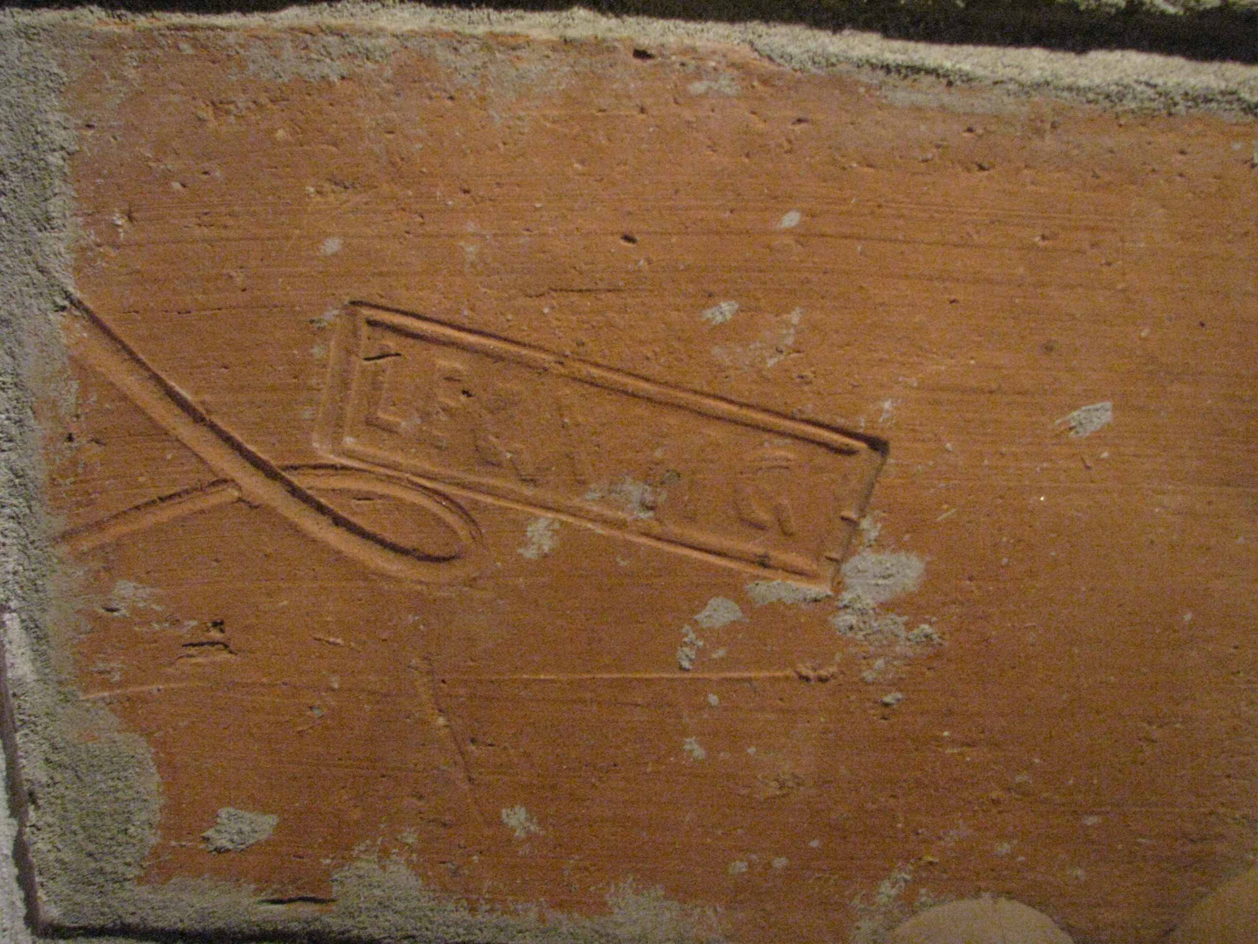 Alba Iulia National Museum of the Union 2011